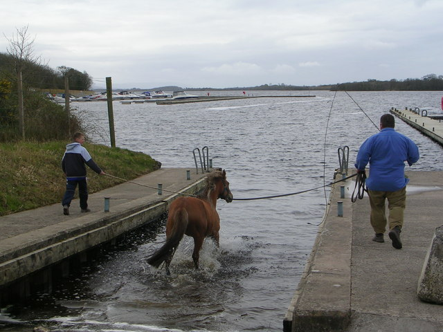 Horsey Swimming Lessons Local horse owner gives his horse swimming exercise in Lough Erne.